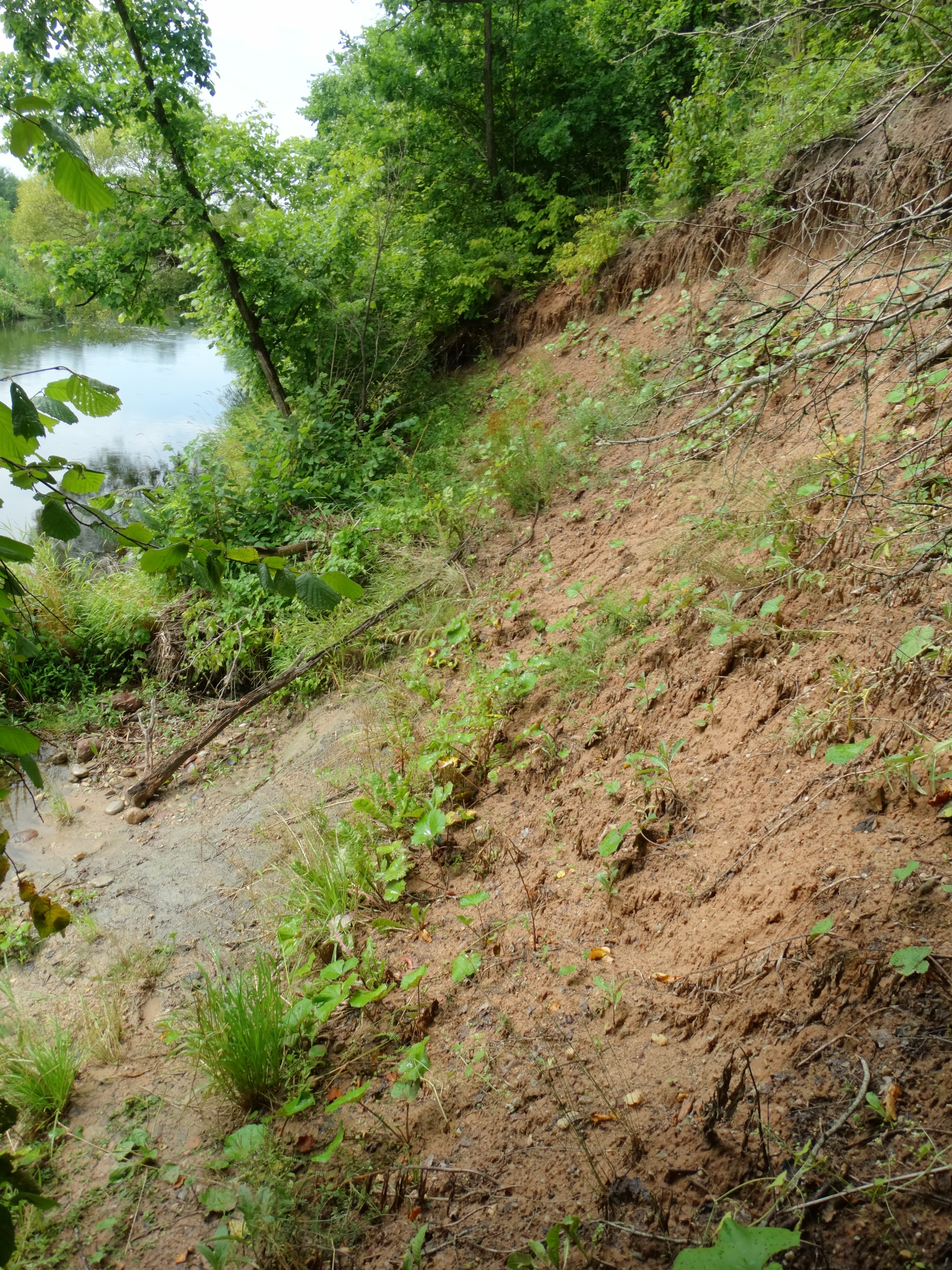 Purviai outcrop, Akmenė district, Lithuania